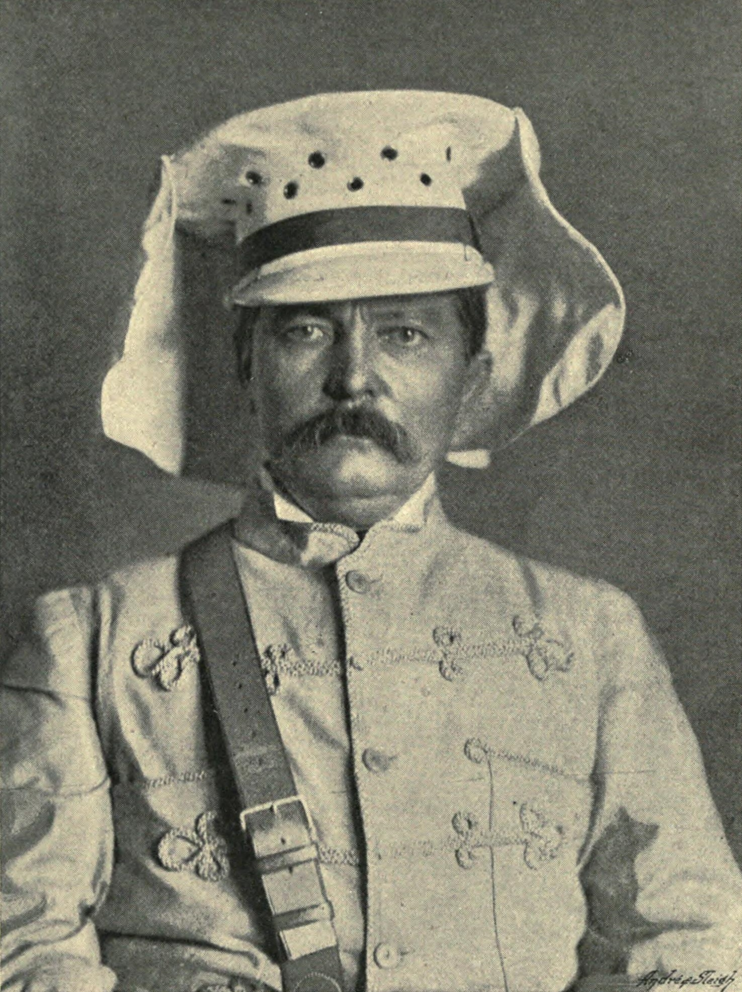 Portrait of Henry Morton Stanley